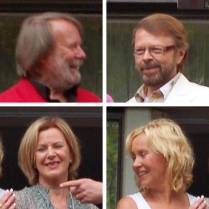 The members of ABBA in 2008